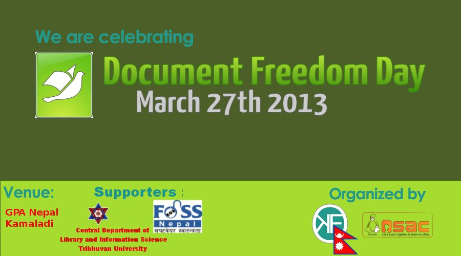 This is the banner image for Document Freedom Day in Nepal. The event organized by OKFN Nepal and OSAC, and Supported by TU and FOSS Nepal.